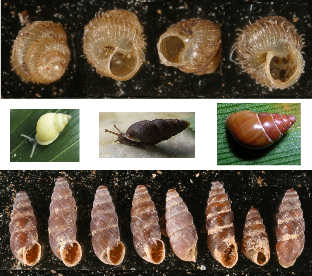 Composite of 5 images of Orthurethra. Images: Acanthinula Aculeata, Partula Llangfordi, Ena Montana, Auriculella, Chondrina Avenacea